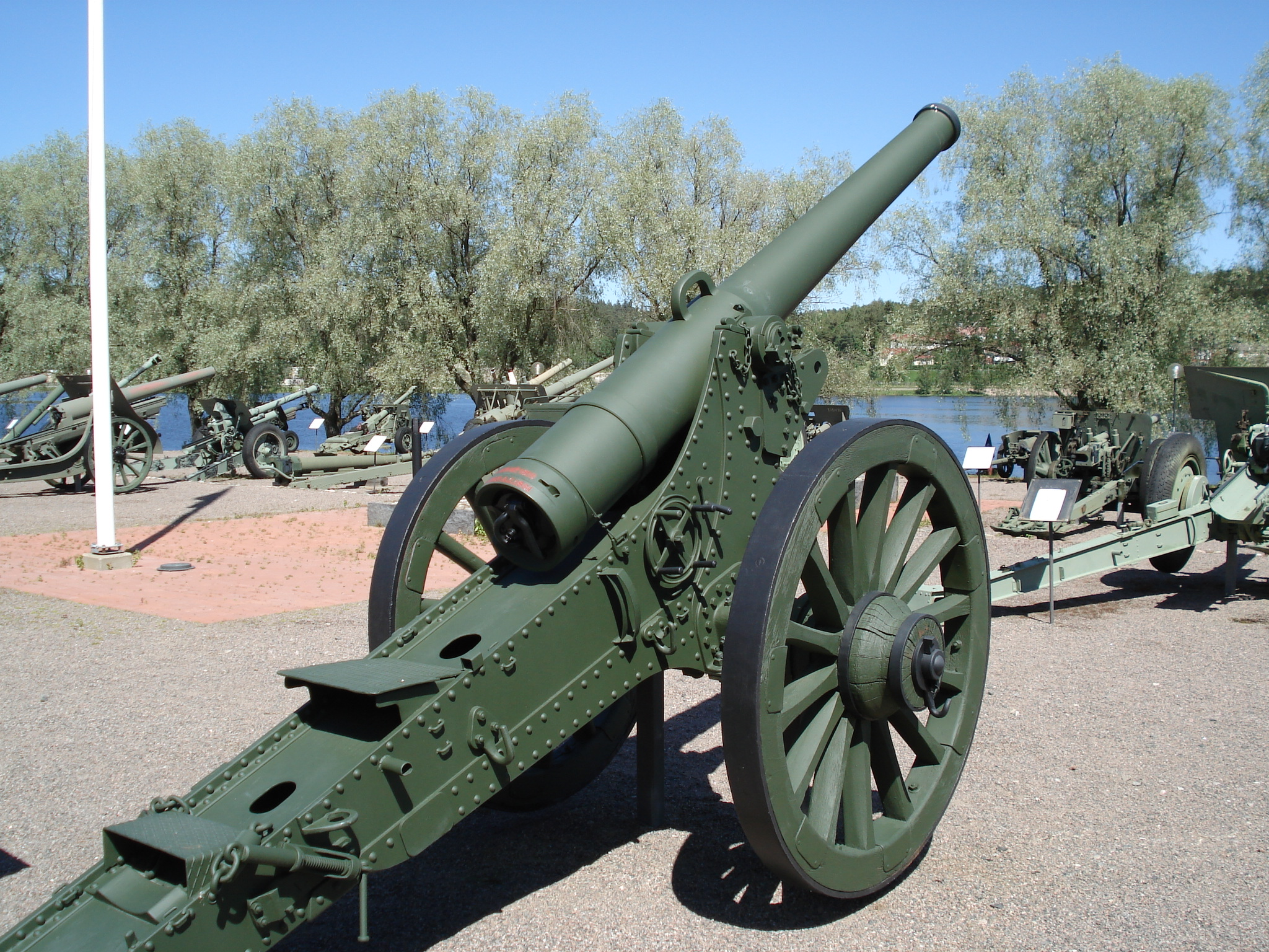 French 120mm Cannon mle 1878-1916 Long, used by Finland under designation 120 K78-16, displayed in Finnish Artillery Museum. (see [1])